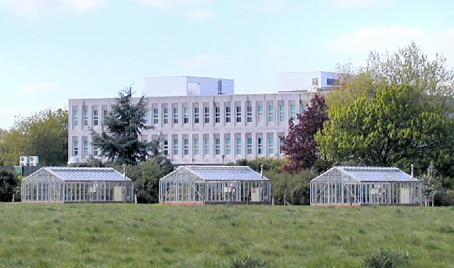 University of Nottingham School of Agriculture, Sutton Bonington Nottinghamshire.